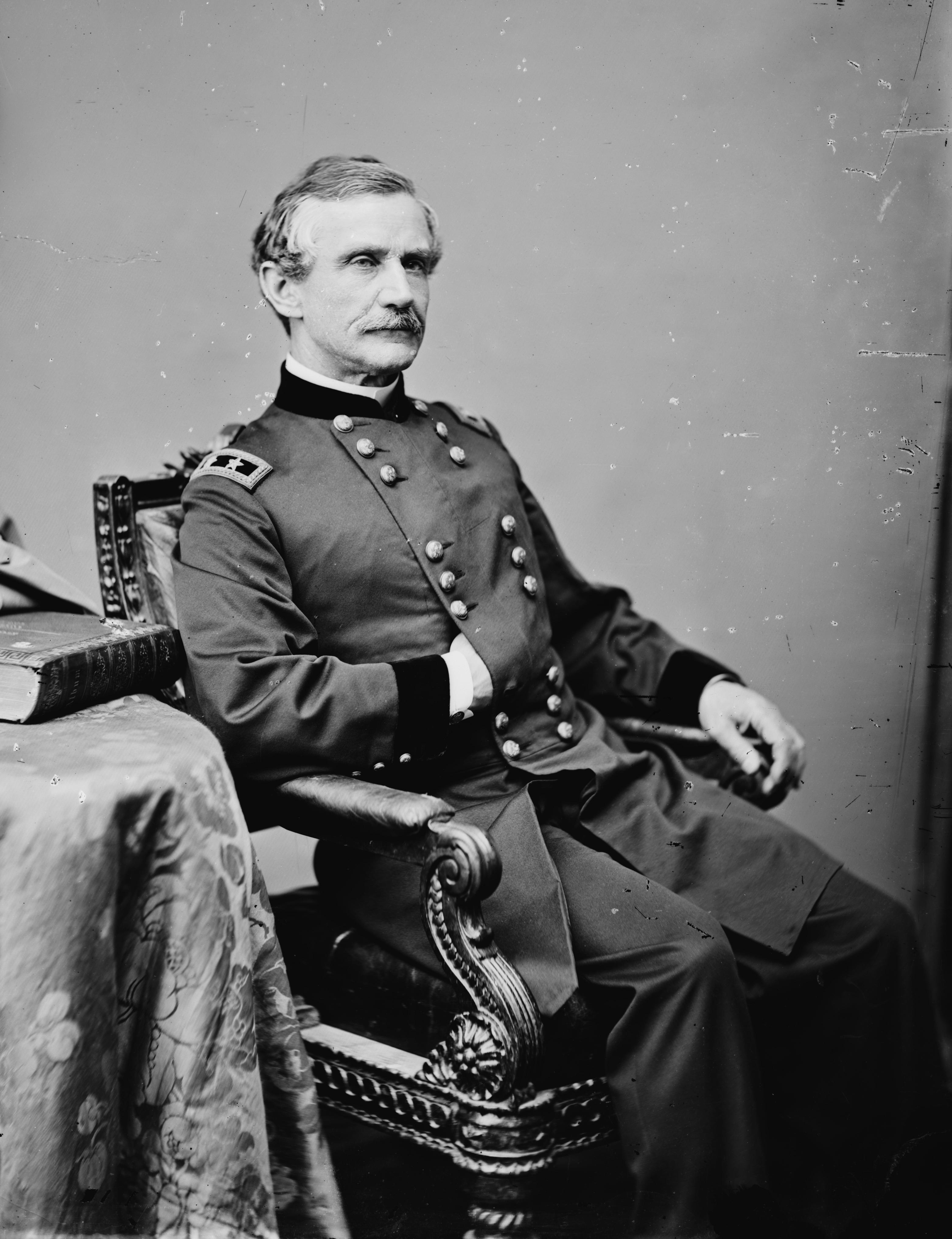 Andrew Atkinson Humphreys (1810 - 1883), U.S. Army officer, civil engineer, and a Union general in the American Civil War. He served in senior positions in the Army of the Potomac and was Chief Engineer of the U.S. Army.